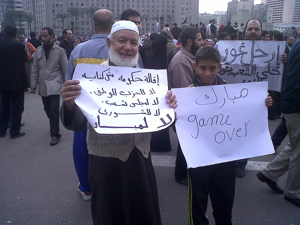 Flickr user mnadi offers the following translations: "Mubarak Game Over" and "The stepping down of the government is not enough.. No to the NDP, No to the MPs.. No to Mubarak"